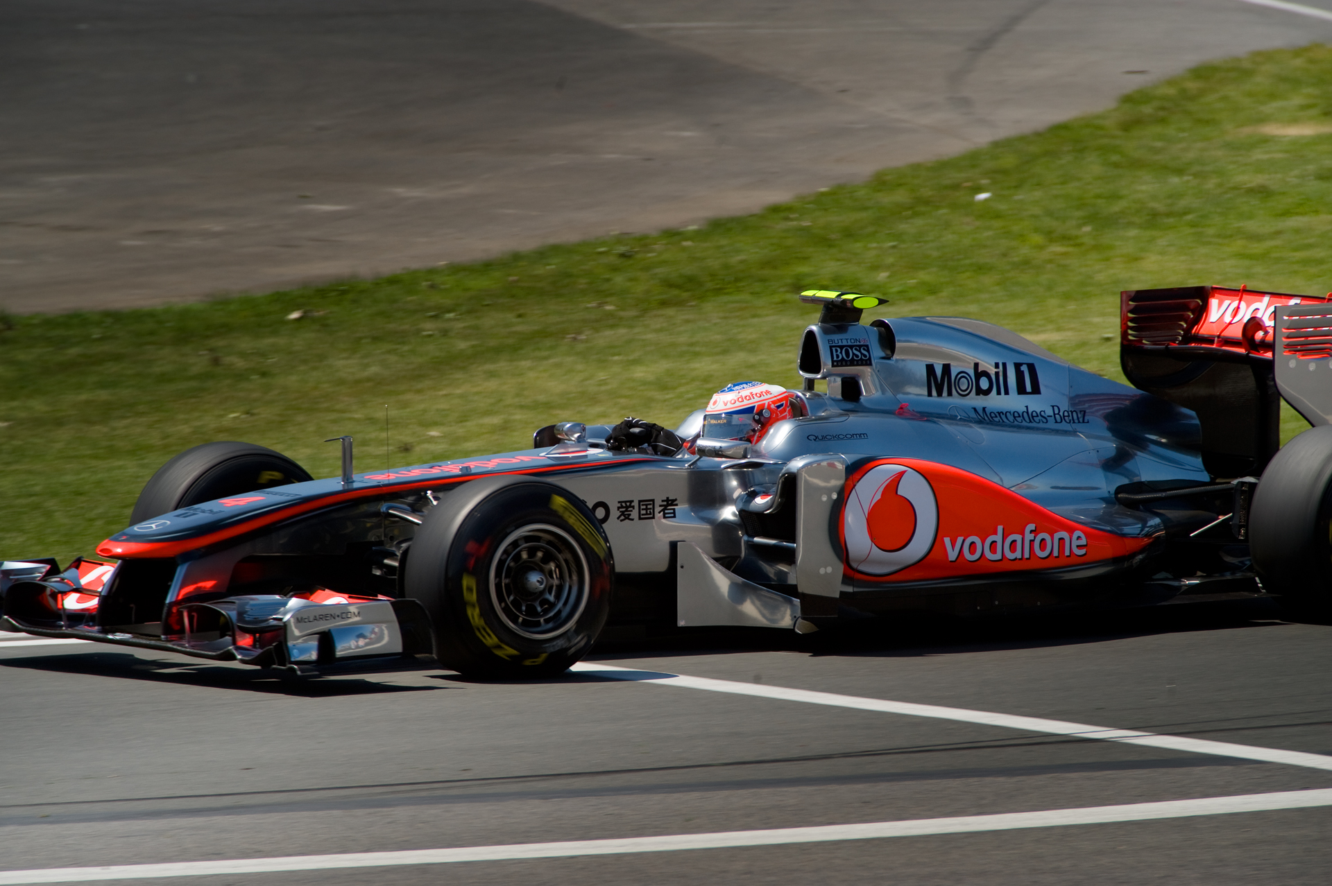 McLaren mp4-26 Jenson Button 2011 Canadian GP